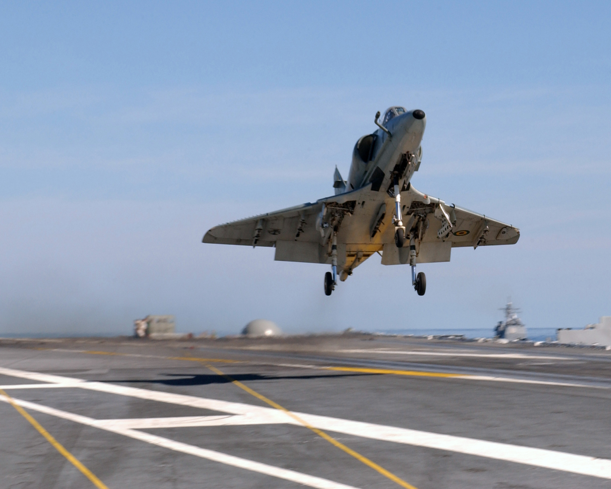 A Douglas A-4KU Skyhawk embarked on the Brazilian aircraft carrier Sao Paulo (A12) performs a touch and go landing aboard the aircraft carrier USS Ronald Reagan (CVN-76) on 8 June 2004 during the "Summer Pulse 2004" exercise in South American waters. In 1997 Brazil negotiated a $70 million contract for purchase of twenty A-4KU and three TA-4KU Skyhawks from Kuwait. These were refurbished and redesignated AF-1 and AF-1A in Brazilian Service. They are operated by the Brazilian Navy fighter squadron VF-1 Falcões (Hawks).